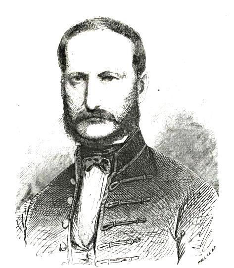 Portrait of Mór Fischer